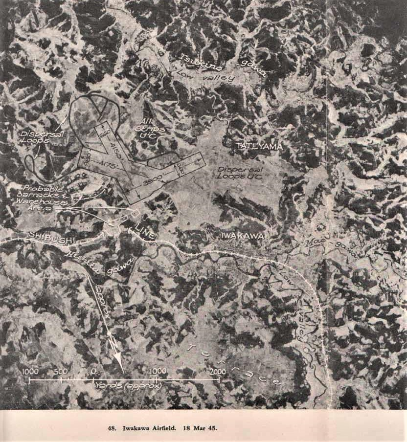 Iwakawa airfield 18 march 1945